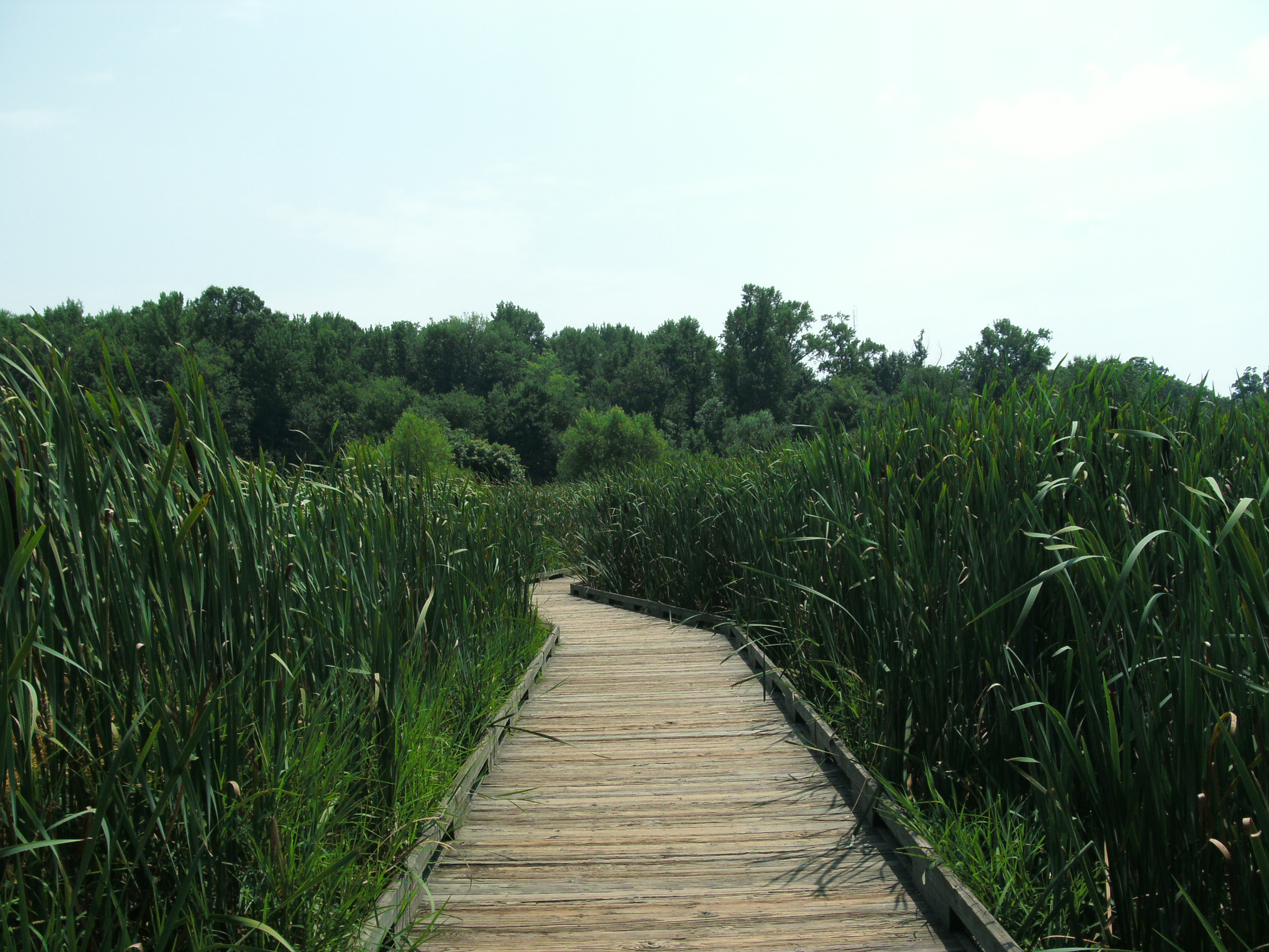 Fairfax County, VA GEDSC DIGITAL CAMERA